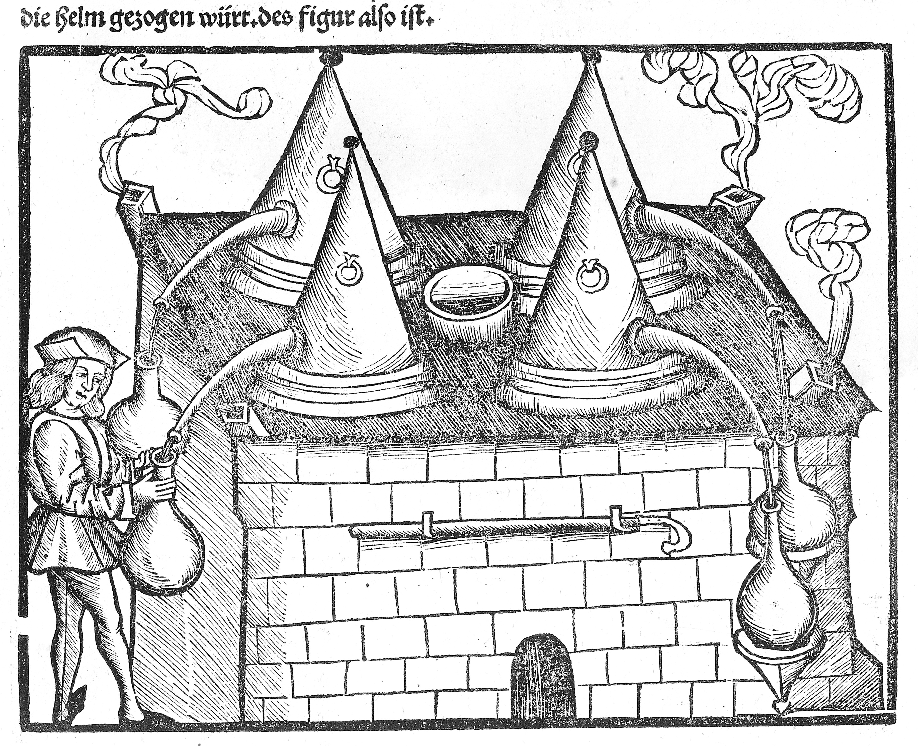 An apothecary drawing liquid from a primitive distillation machine. Wood engraving. Rare Books Keywords: Hieronymus Brunschwig